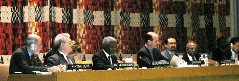 Summary: United Nations Secretary General Kofi Annan giving a welcome speech to the UN ICT TF at its 6th meeting in New York, March 2004. Next to him on the panel are Vint Cerf, one of the founders of the TCP/IP protocol suite that laid the foundation for the Internet, José Antonio Ocampo, Undersecretary General of the United Nations, and José Maria Figueres, first chairman of the UN ICT Task Force. Source: Picture taken by myself at the 6th UN ICT Task Force meeting in New York, March 2004